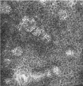 An image that was shot using the VivaScope confocal microscope.